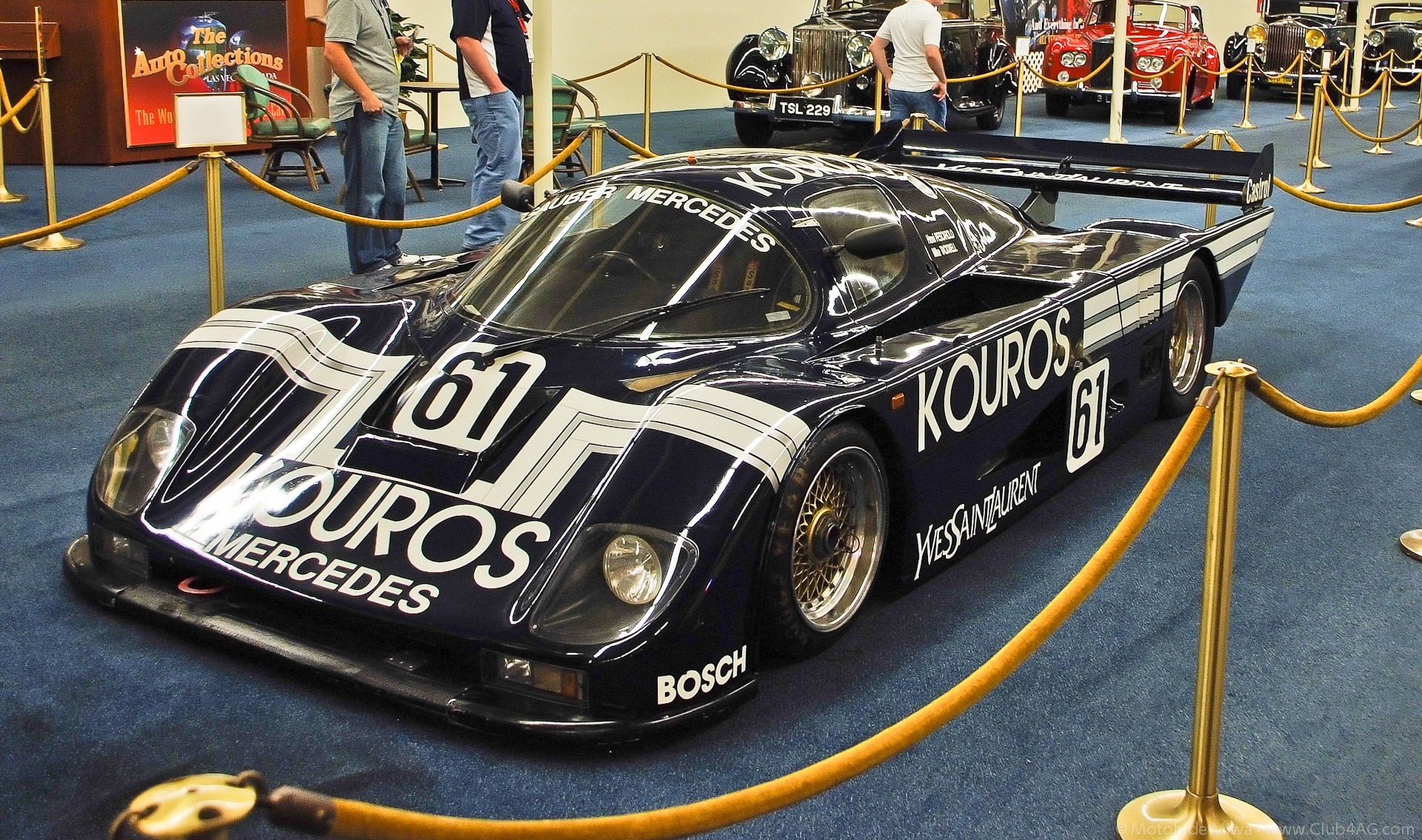 1986 #61 Sauber C8 driven by Henri Pescarolo and Mike Thackwell during 1986 WSC season ( shown at 2011 Imperial Palace Harrahs Auto collections